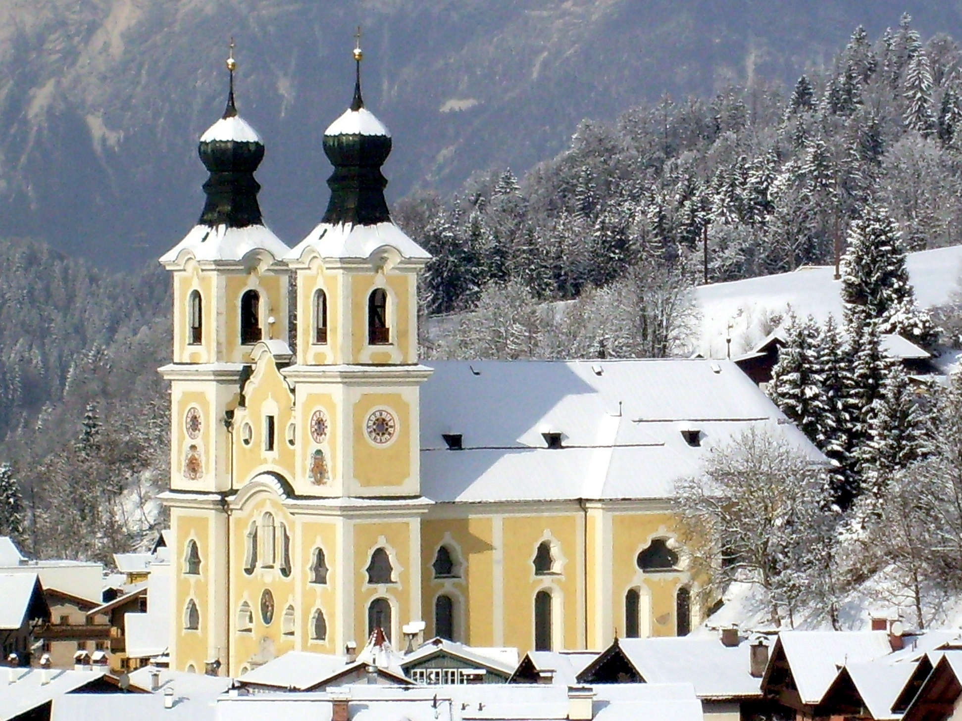 Roman-Catholic parish church St. James und St. Leonard of Hopfgarten im Brixental, Tyrol (Austria)